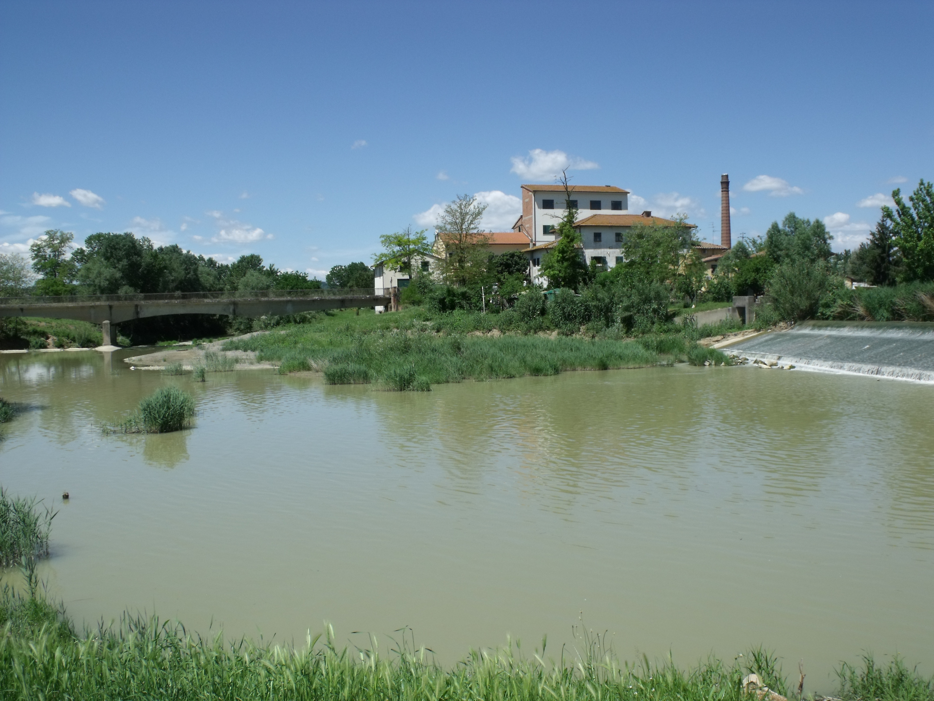 The Elsa River near the Mulino di Granaiolo (Mill of Granaiolo) in the northern part of the area of Castelfiorentino (near the border to Empoli), Province of Florence, Tuscany, Italy